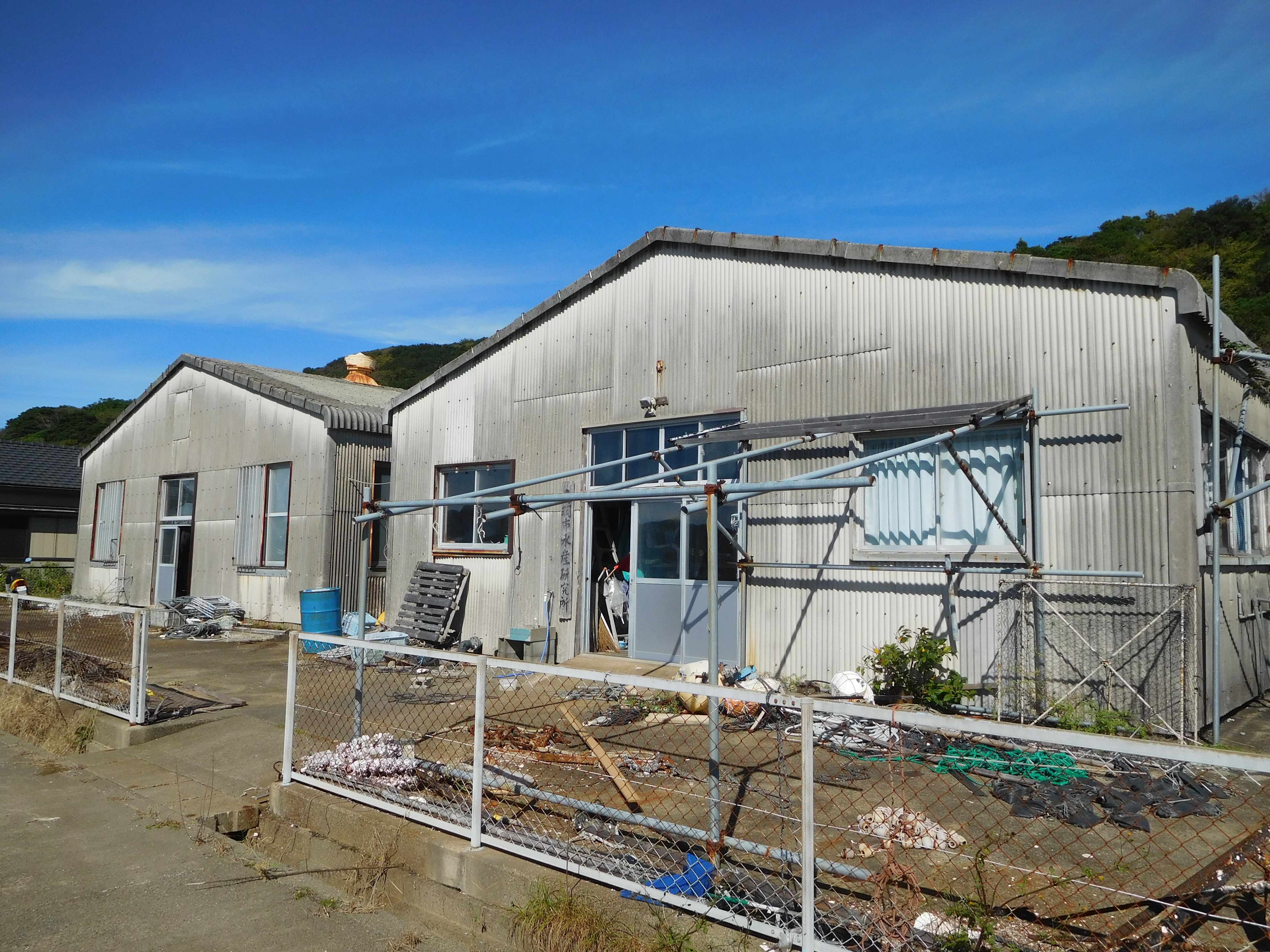 This is Toba City Fishery Institute in Sakate Island, Toba, Mie, Japan.